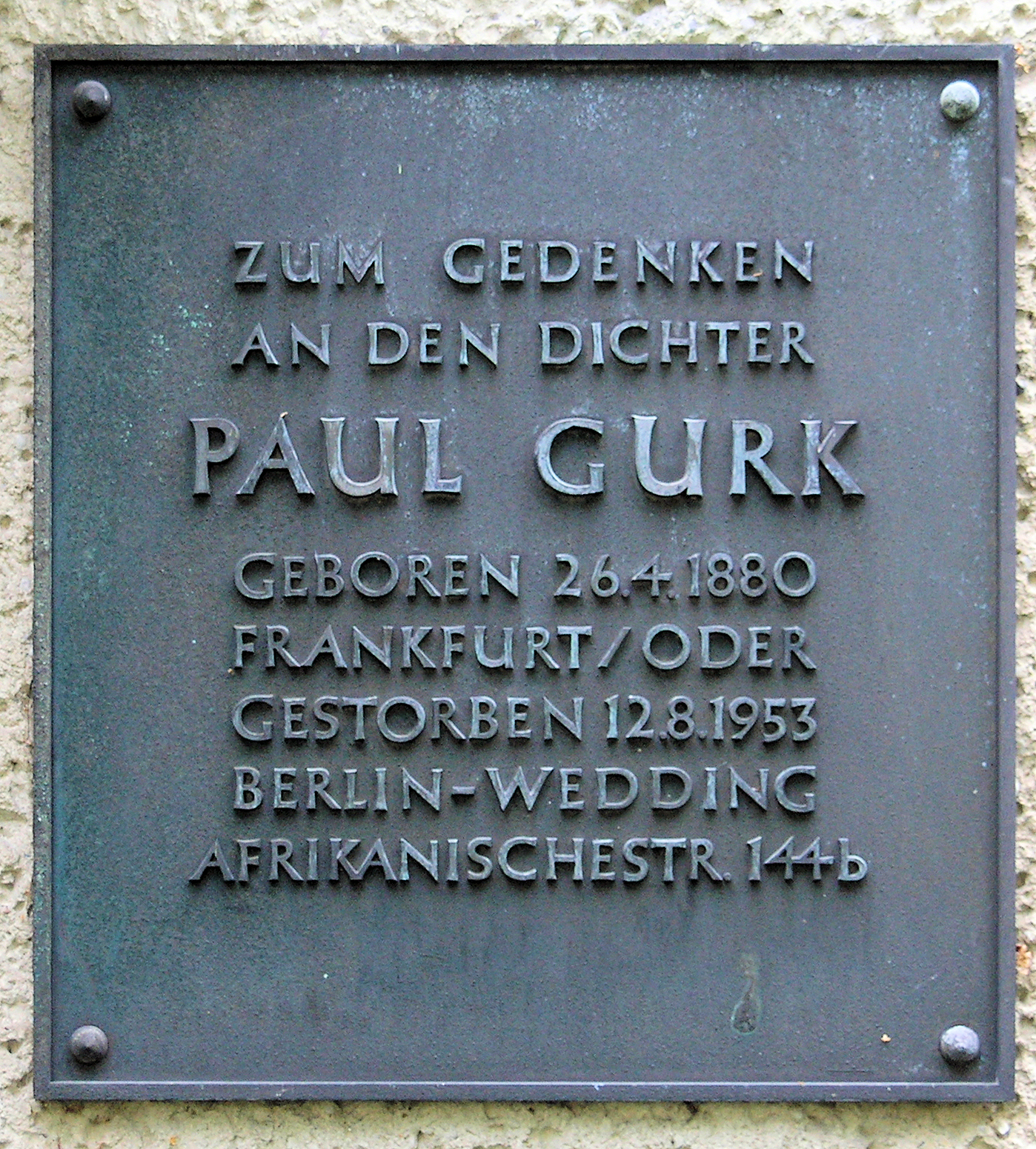 Memorial plaque, Paul Gurk, Afrikanische Straße 144b, Berlin-Wedding, Germany Koordinate:52°33′33″N 13°20′4″E / 52.55917°N 13.33444°E